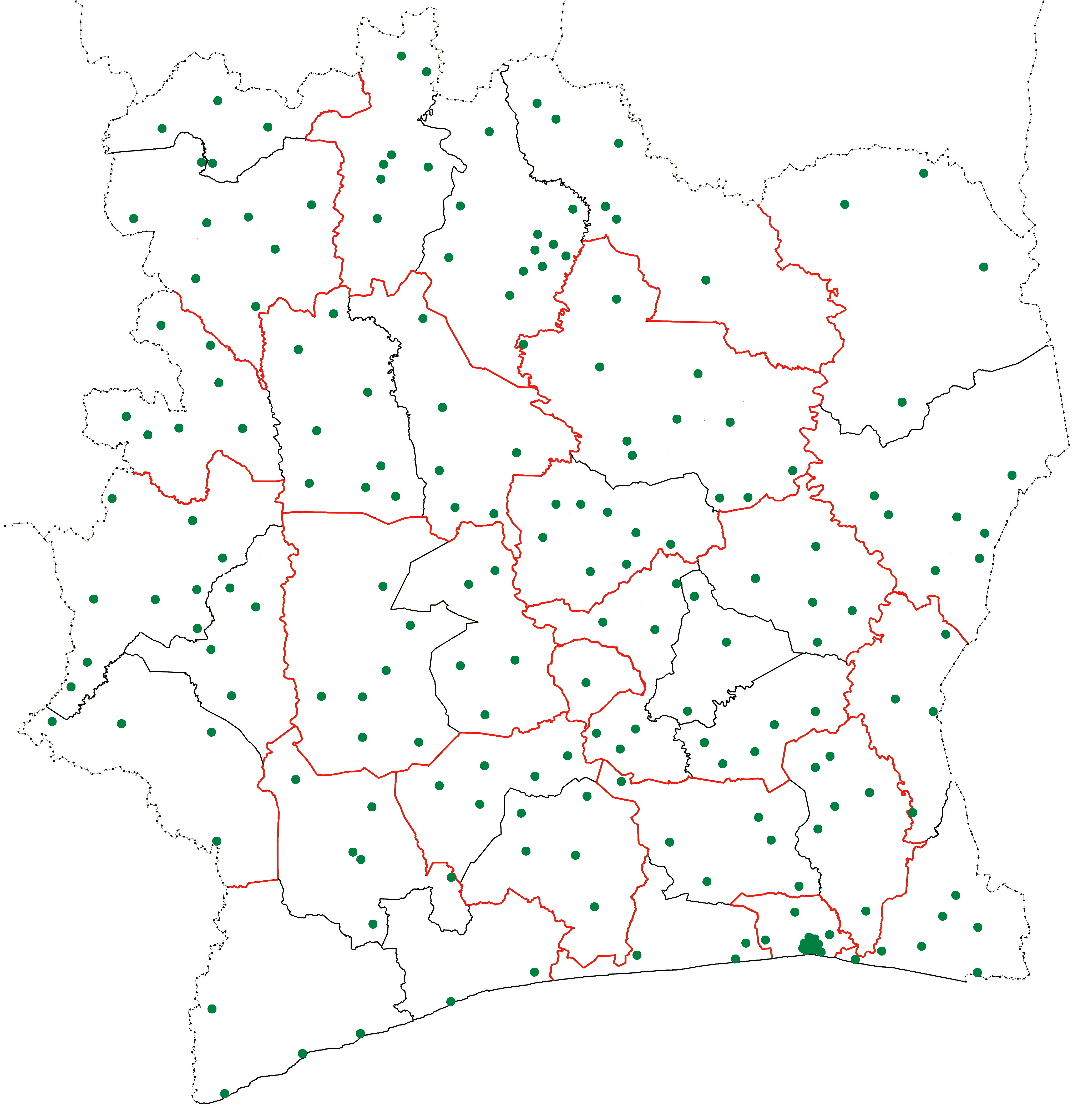 Map of the communes of Côte d'Ivoire. Green dots indicate the location of the settlement that is the seat of the commune. There are 197 communes in Côte d'Ivoire. Red lines indicate district boundaries and black lines indicate regional boundaries with districts.